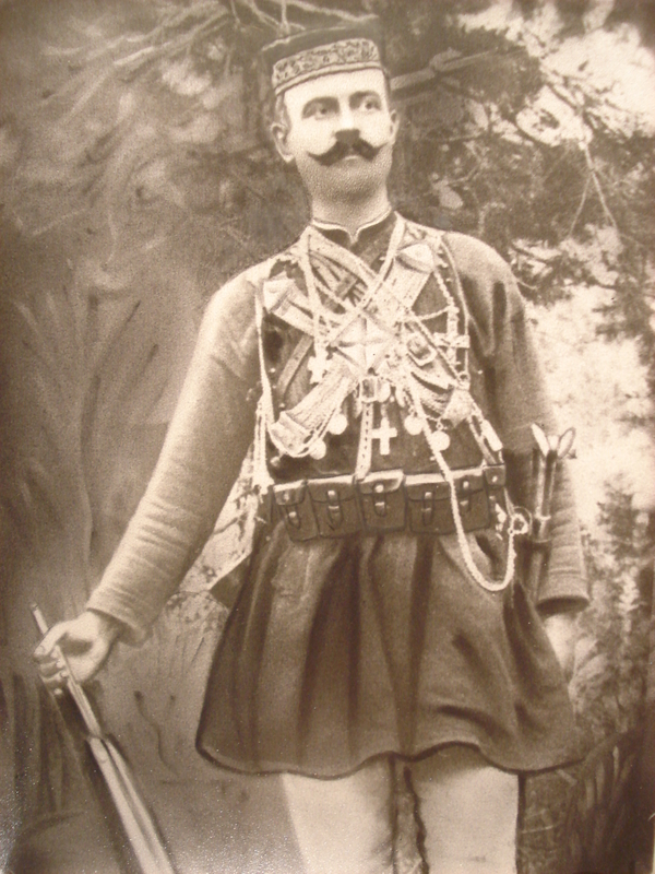 Greek andart Nikolaos Rokas